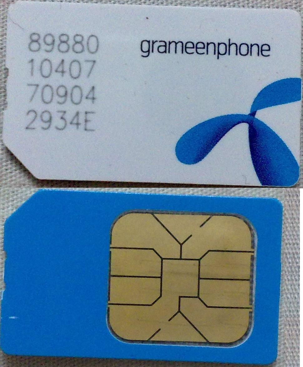 Picture of the SIM card from Grameenphone, the largest mobile service provider in Bangladesh. Both side of the SIM card is presented together